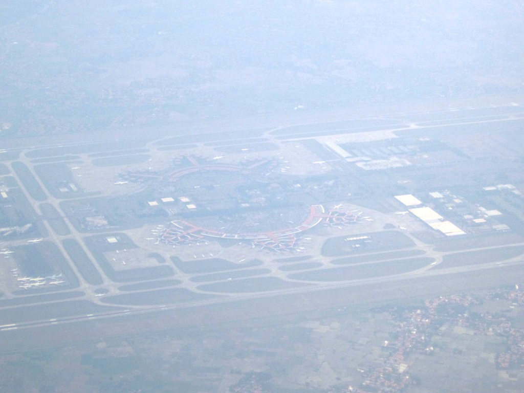 Soekarno-Hatta International Airport